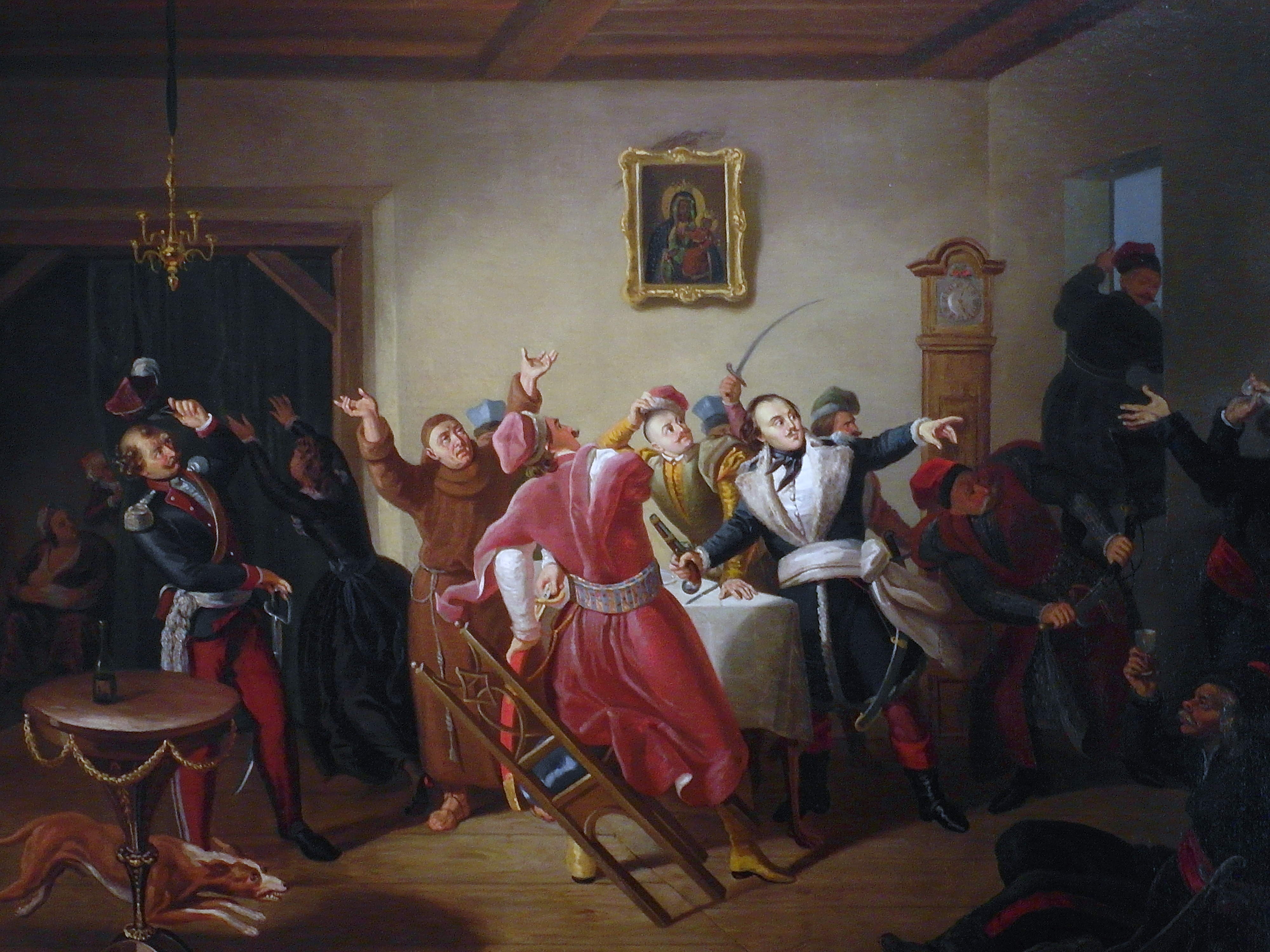 Pułaski at Bar by Korneli Szlegel